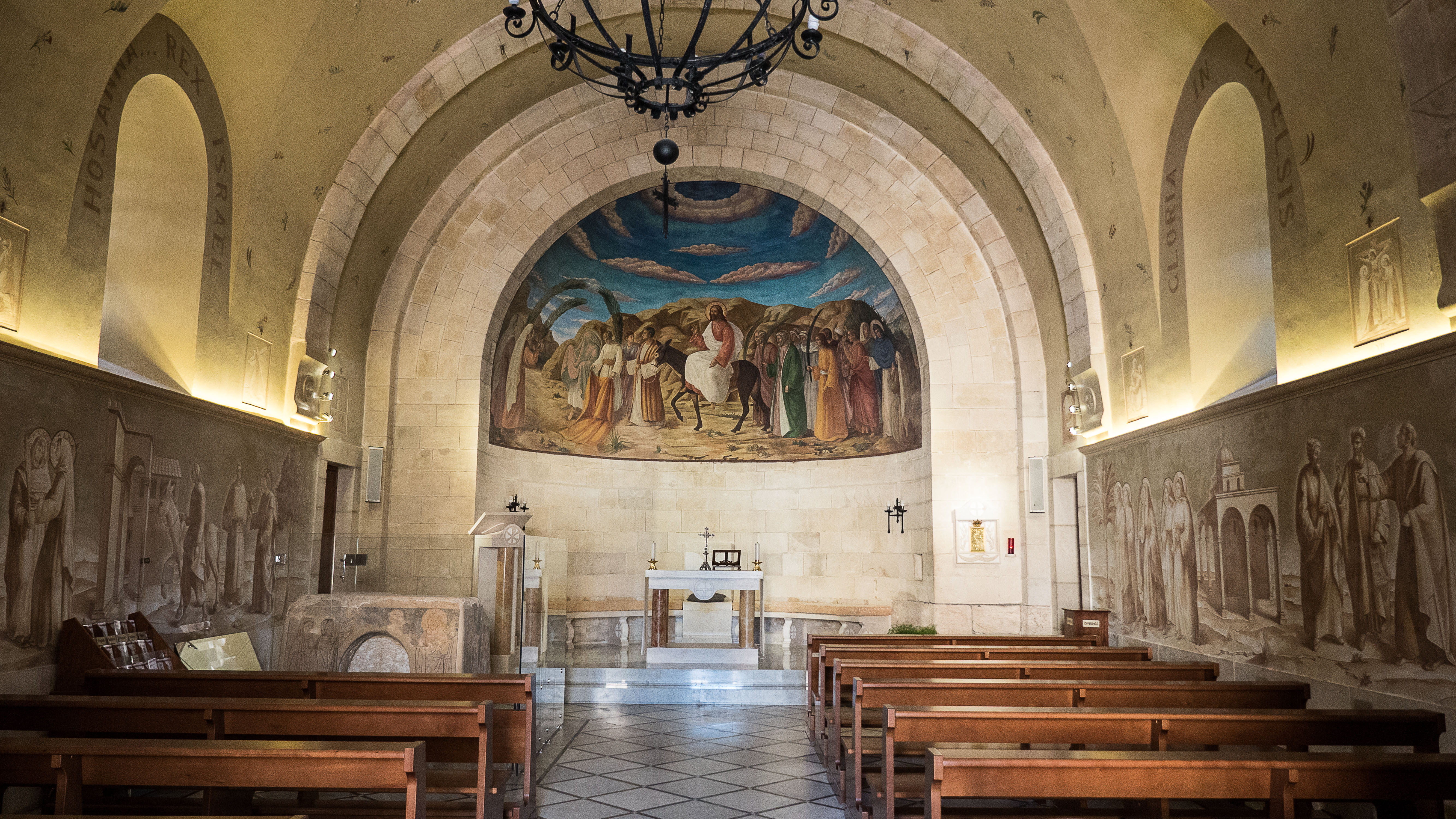 Cathedral of St. James Jerusalem Jerusalem